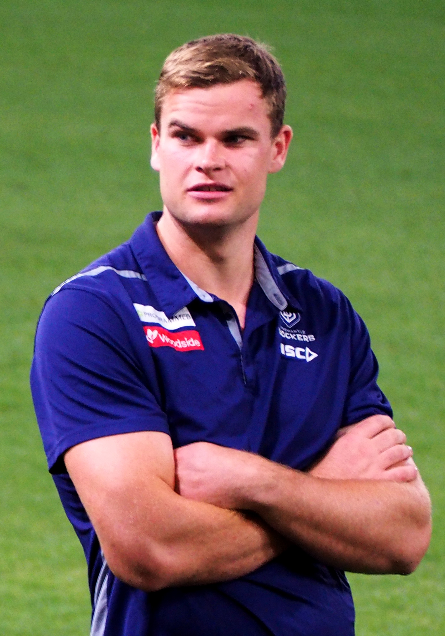 Fremantle Football Club's Sean Darcy at Optus Stadium, Round 6, 27 April 2019